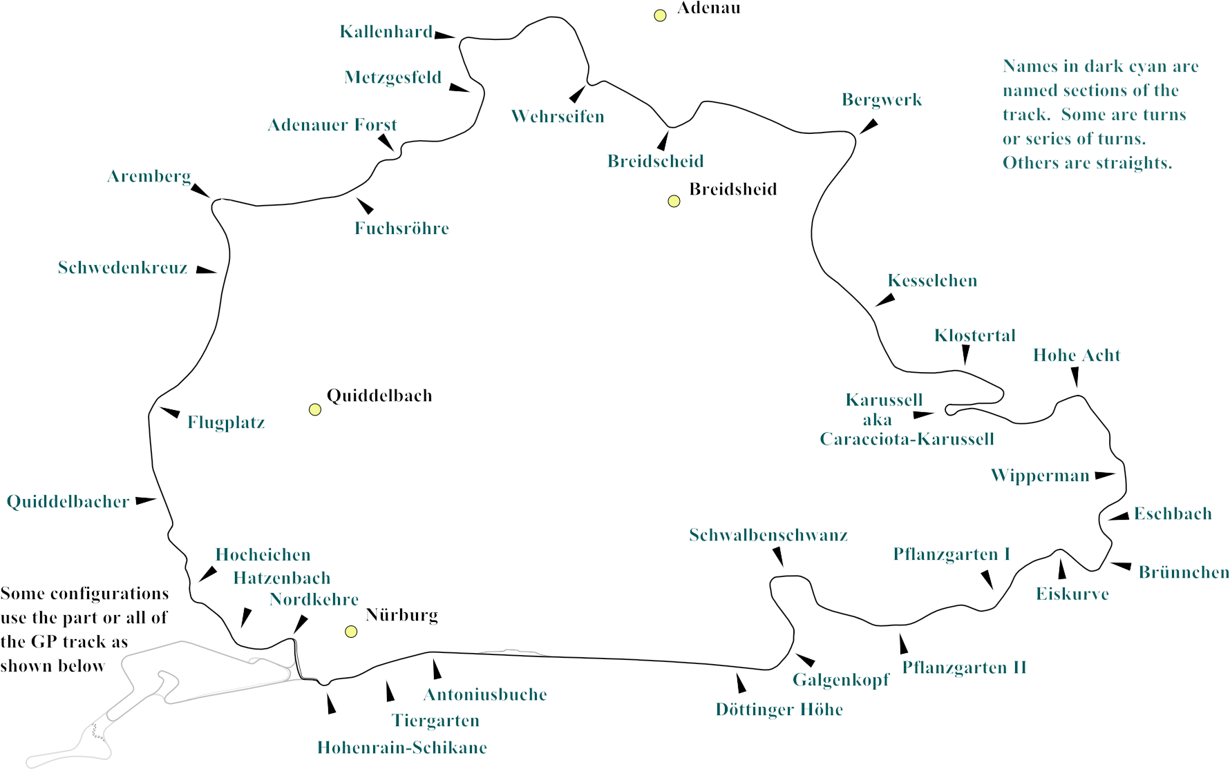 Track map of Nürburgring's Nordschleife. This PNG version is intended for users with browsers like IE7 that don't support SVG.